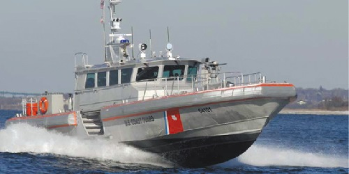 A USCG Maritime Force Protection Unit boat, in Bangor, Washington. Original caption: "The Maritime Force Protection Unit (MFPU) Bangor conducts submarine security escorts when they are transiting surfaced into and out of homeport. The MFPU conducts escorts as part of the Coast Guard’s statutory missions of Ports, Waterways, and Coastal Security and Defense Readiness. The unit is composed of more than 150 active-duty Coast Guard personnel, including two 87-foot Marine Protector Class cutters, the CGC SEA DEVIL and the CGC SEA FOX."